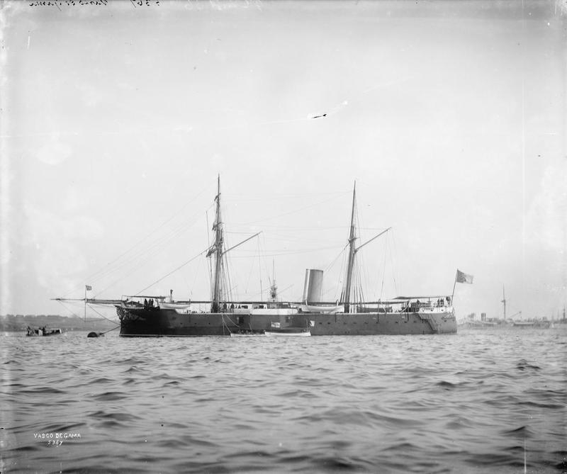 Photograph of Portuguese ironclad Vasco da Gama.